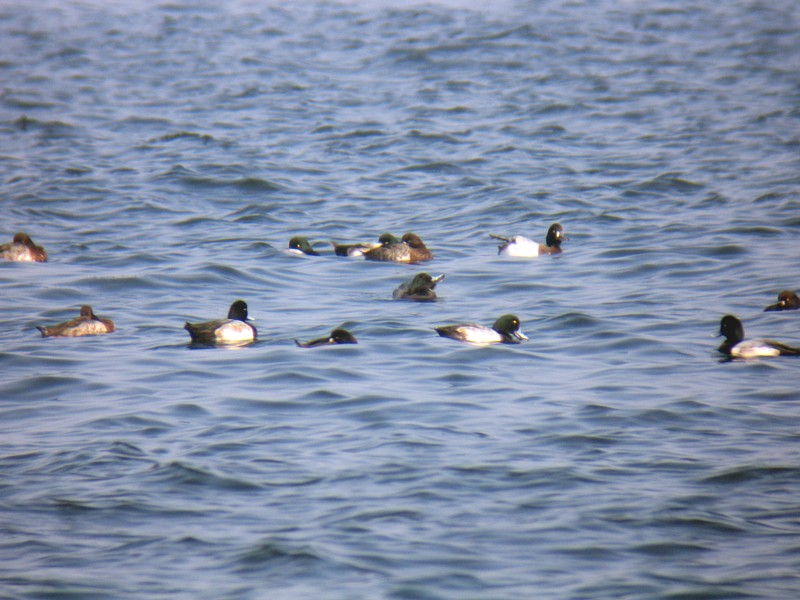 Greater Scaup, Nov. 2005, Tokyo bay, JAPAN ; Japanese description:スズガモの群れ 2005年11月 東京湾 横浜市金沢区 (投稿者自身による撮影)